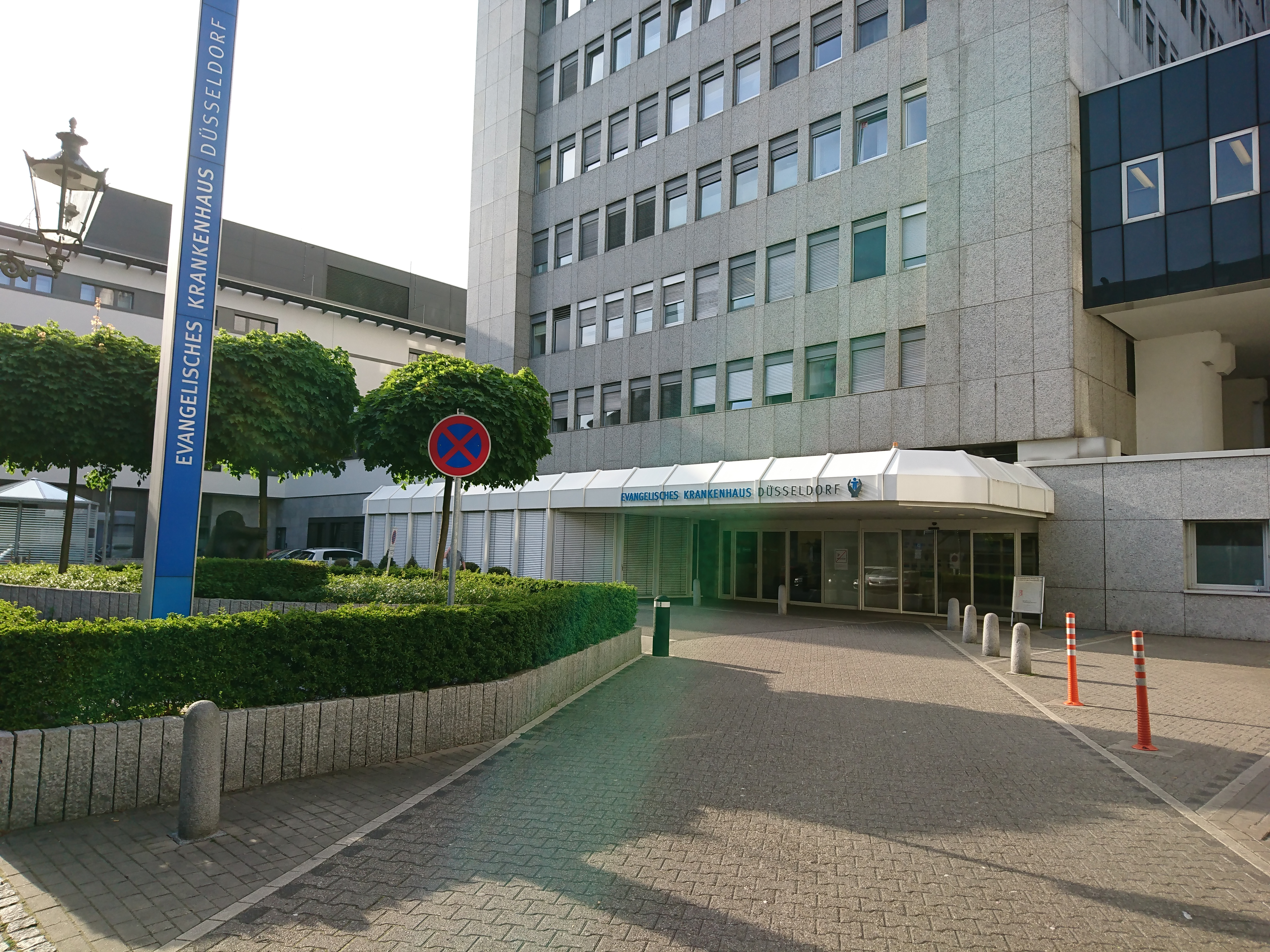 health organization